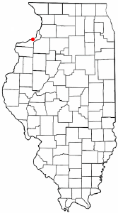 Category:Illinois city locator maps